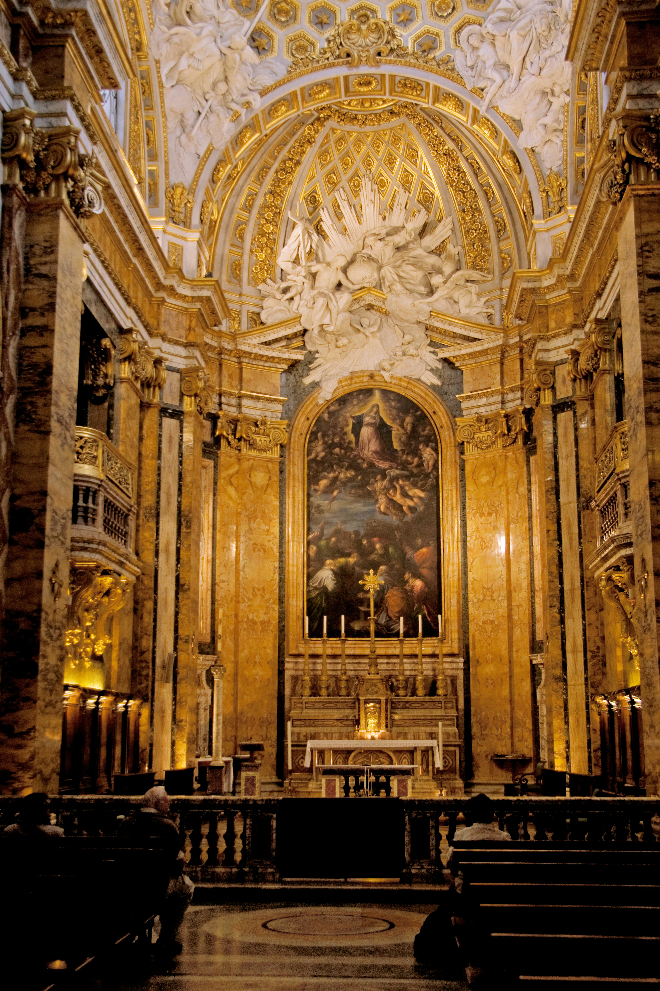 San Luigi dei Francesi is a church of Rome.